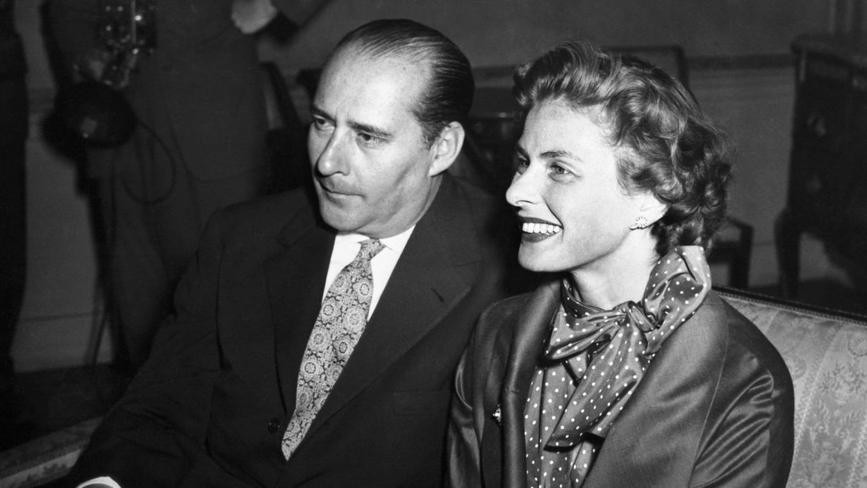 Photo of Ingrid Bergman and Roberto Rossellini.